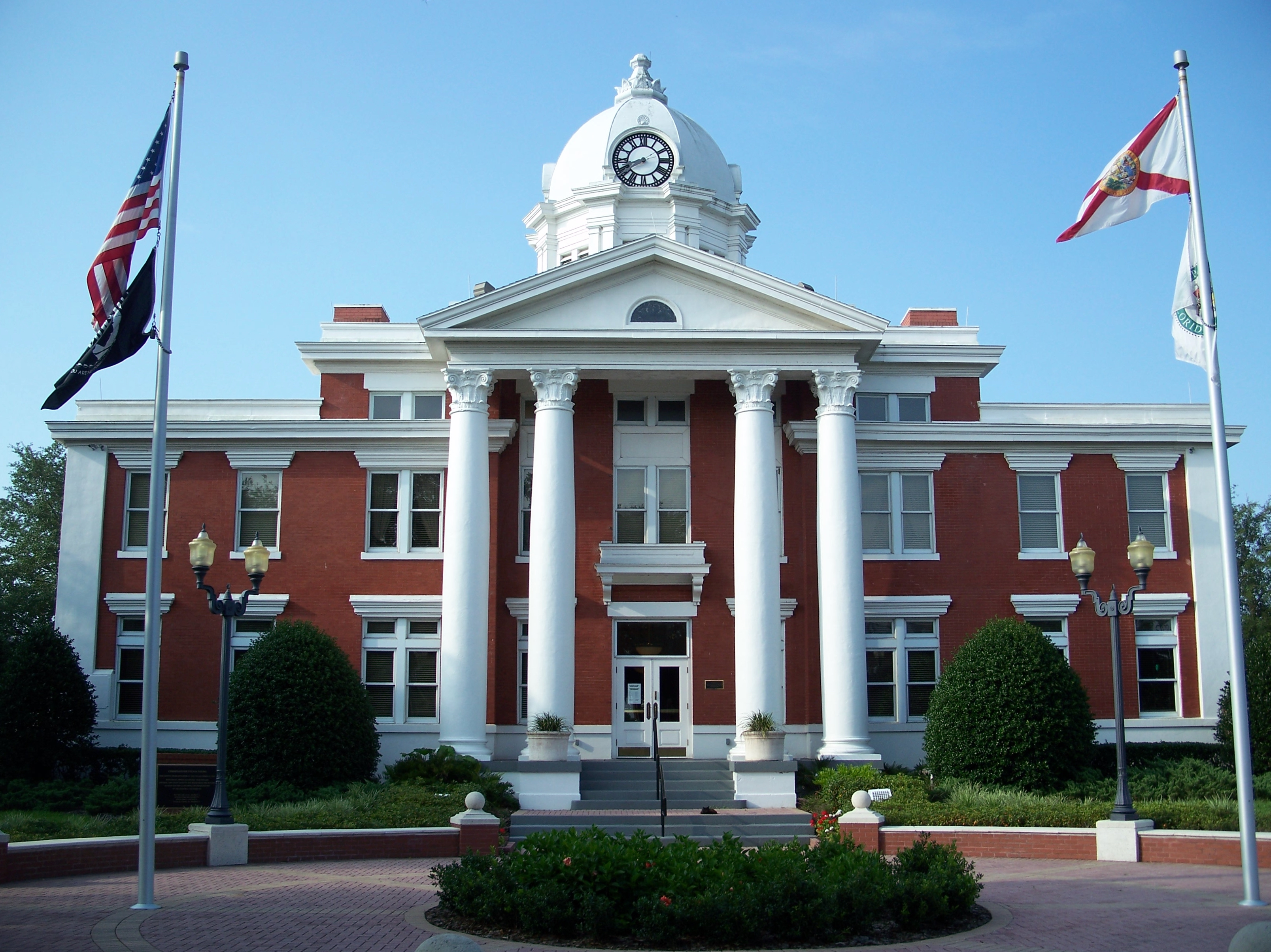 Pasco County Courthouse, in Dade City, Florida